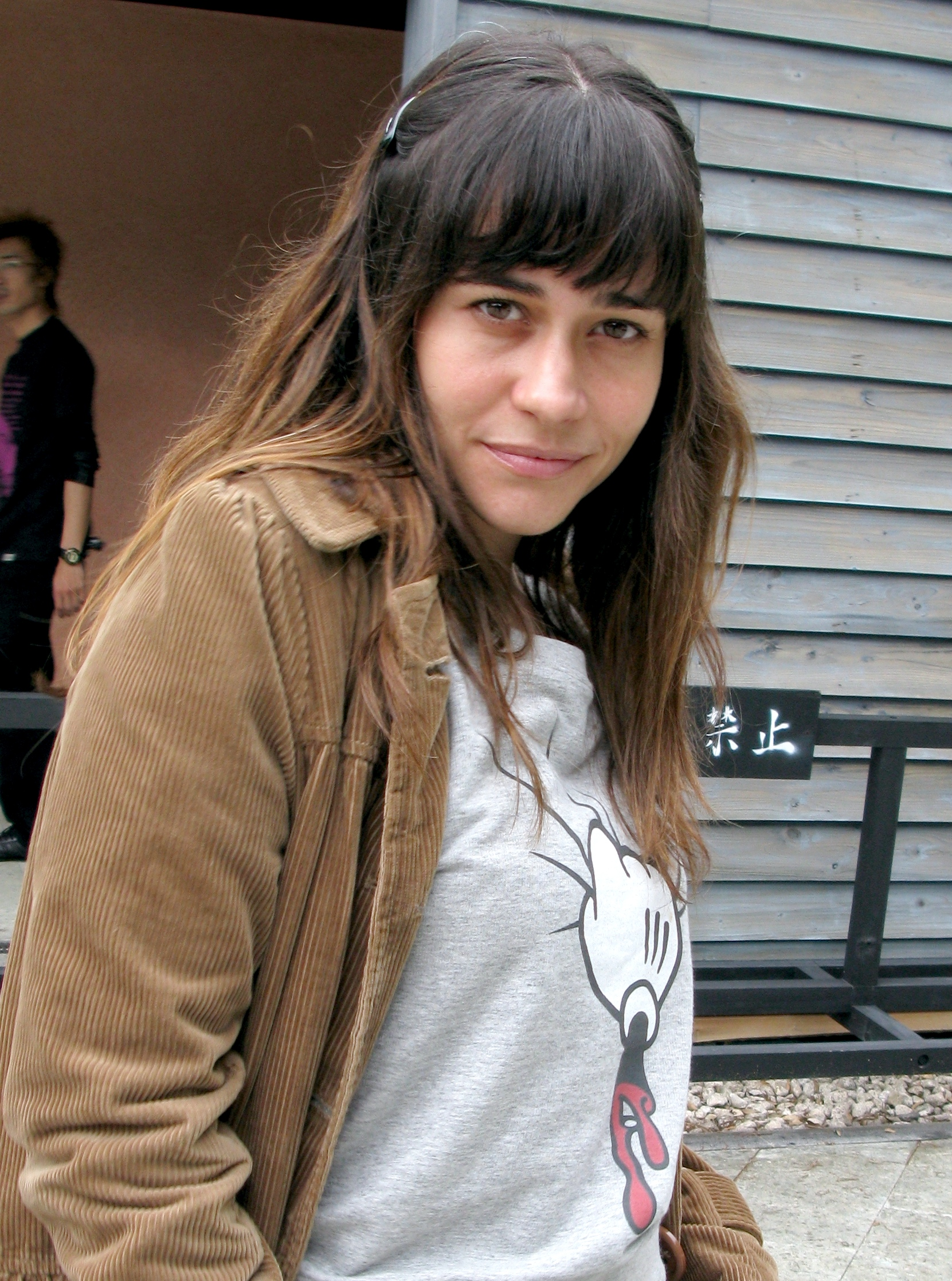 Brazilian actress Alessandra Negrini